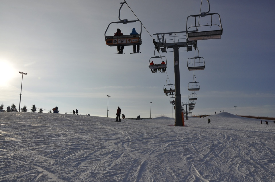 Kolej krzesełkowa w Szwajcarii Bałtowskiej